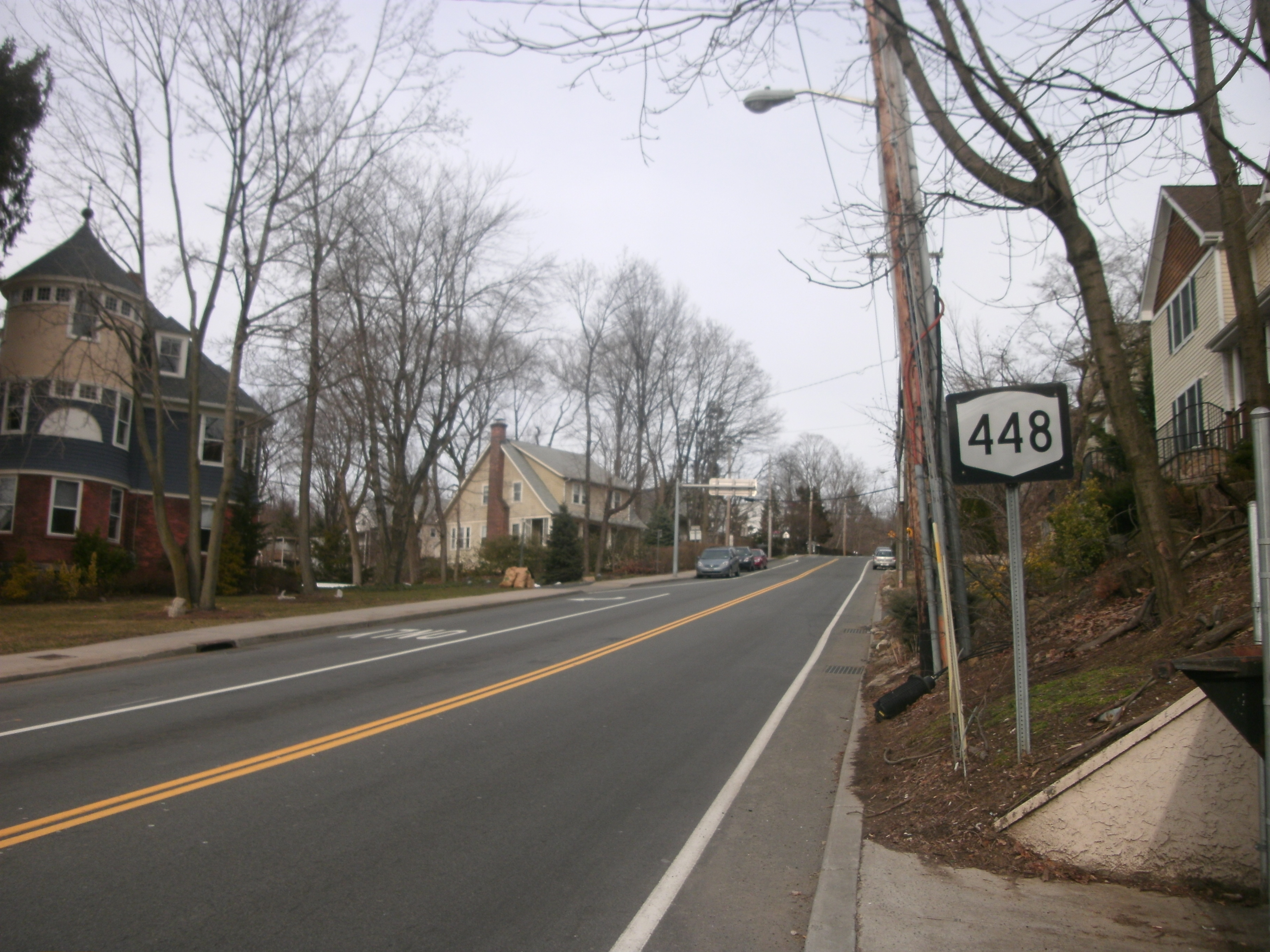 New York State Route 448 north from a junction with U.S. Route 9 in Sleepy Hollow, New York.